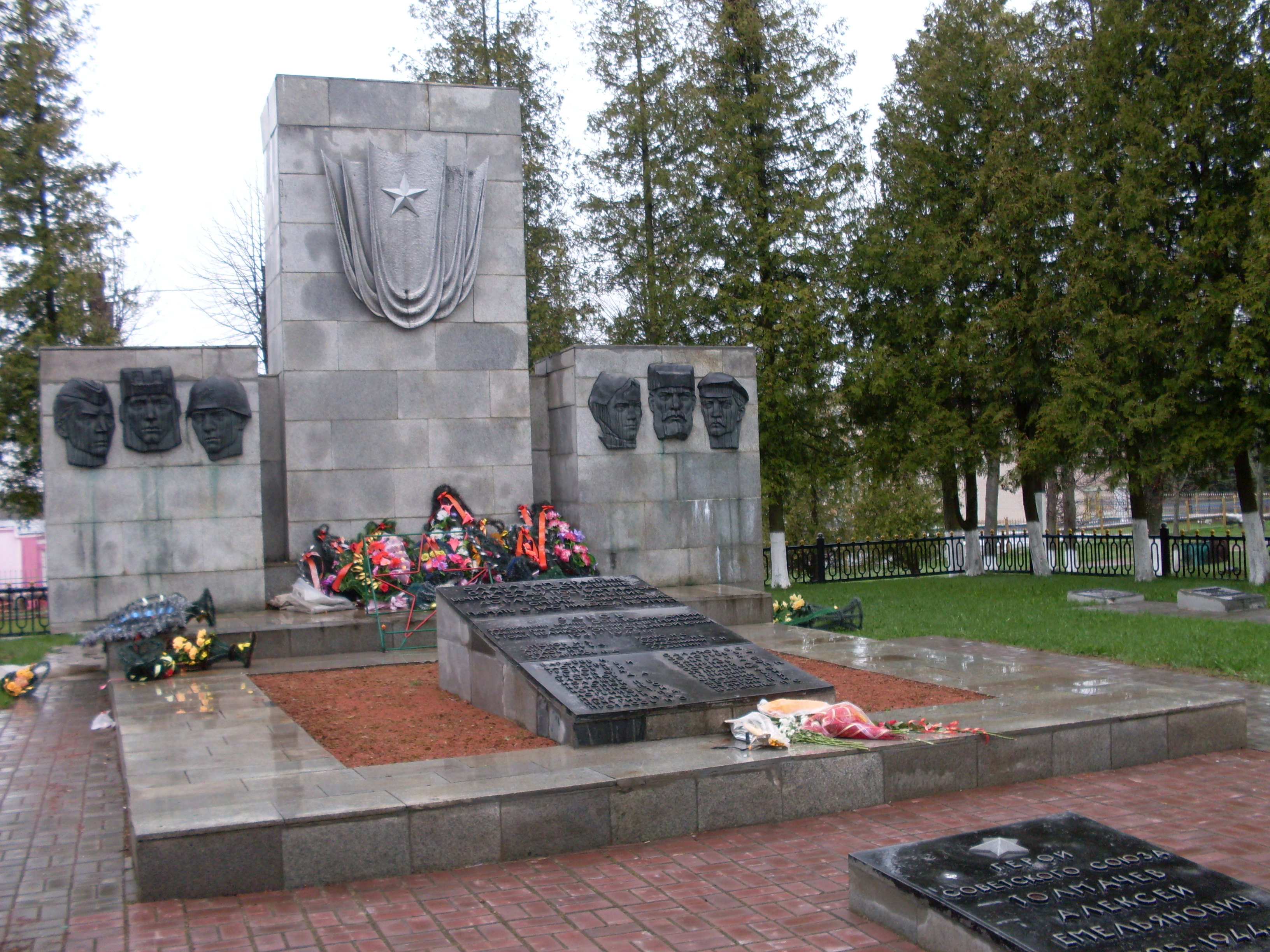 Shumilino (Belarus). Memorial on the grave of 63 heroes of World War II